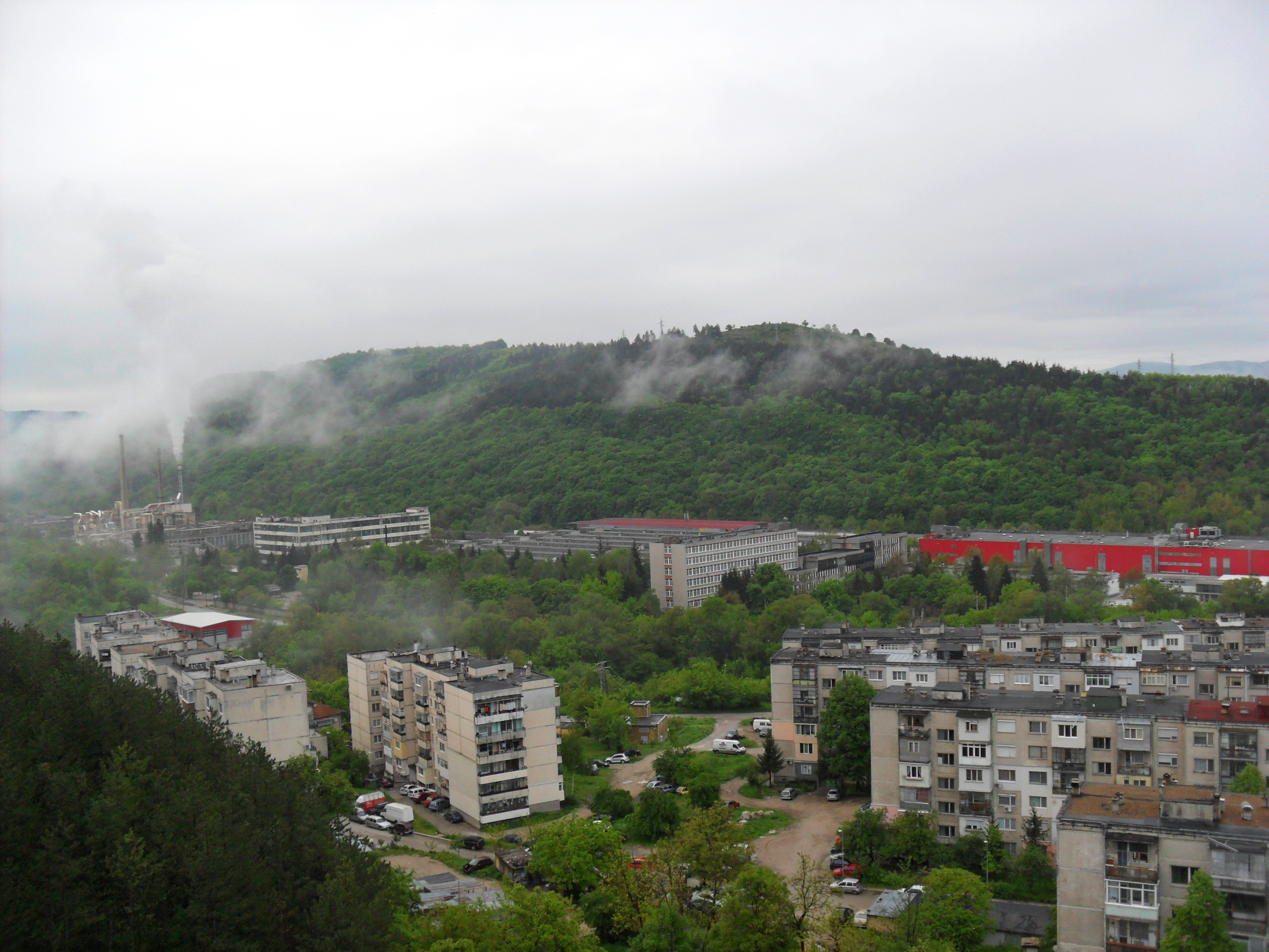 Part of South industrial zone,Veliko Tarnovo,Bulgaria(ex factory for electronics,factory of sweets,power plant)